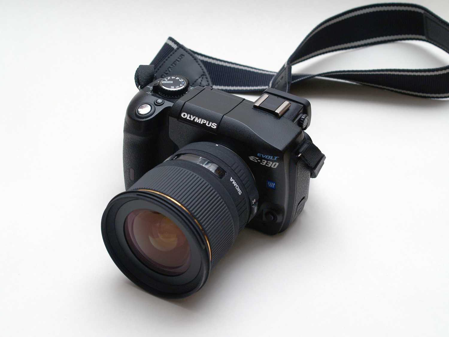 Olympus E-330 digital SLR camera with Sigma 24mm F1.8 EX DG lens.